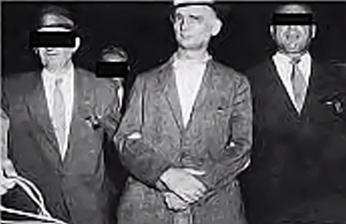 Rudolf Abel arrest 21 Jun, 1957